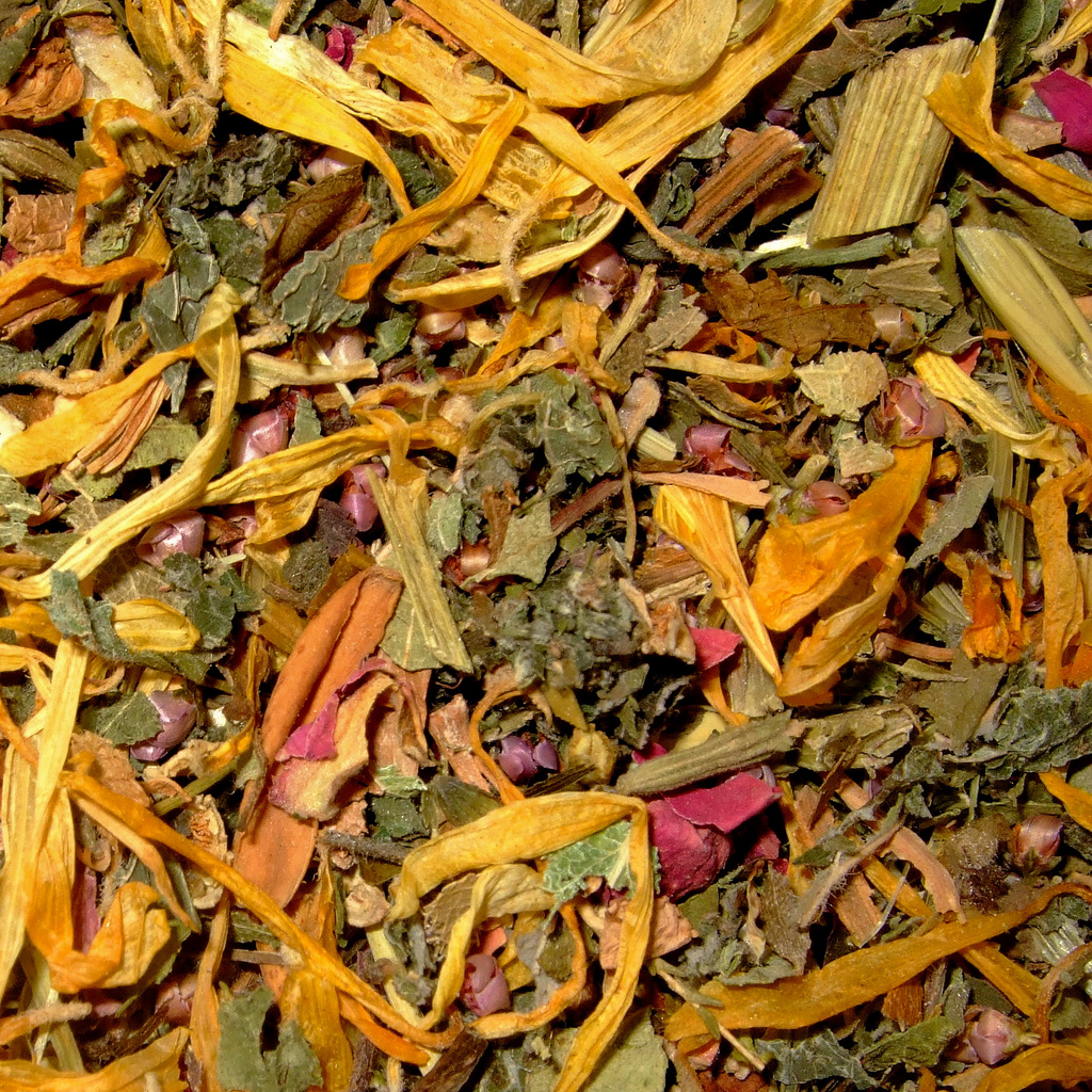 it's a herbal tea mix i was trying to create, actually. Needs more work :D